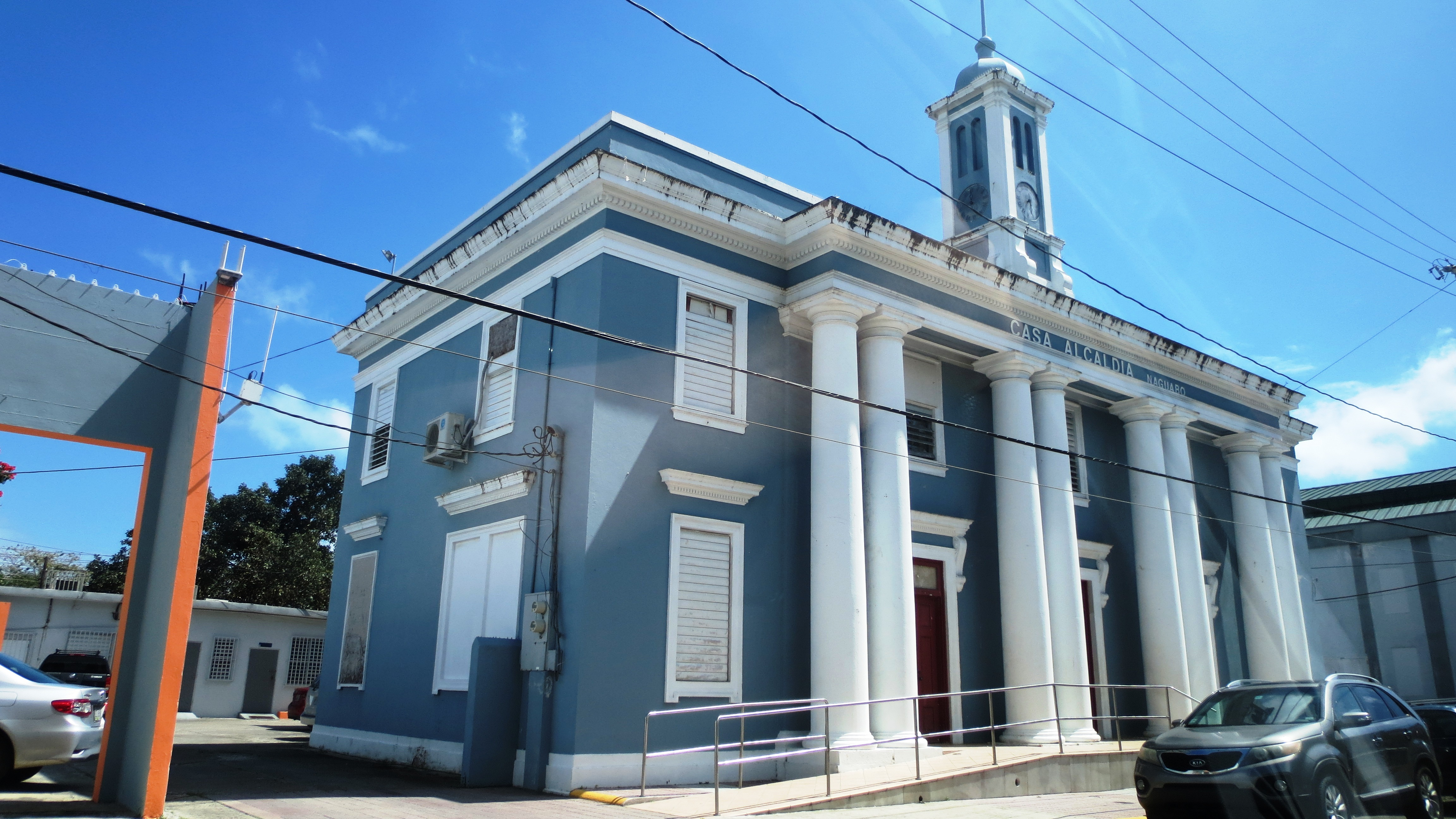 Image of streetlife in Naguabo city, eastern Puerto Rico.